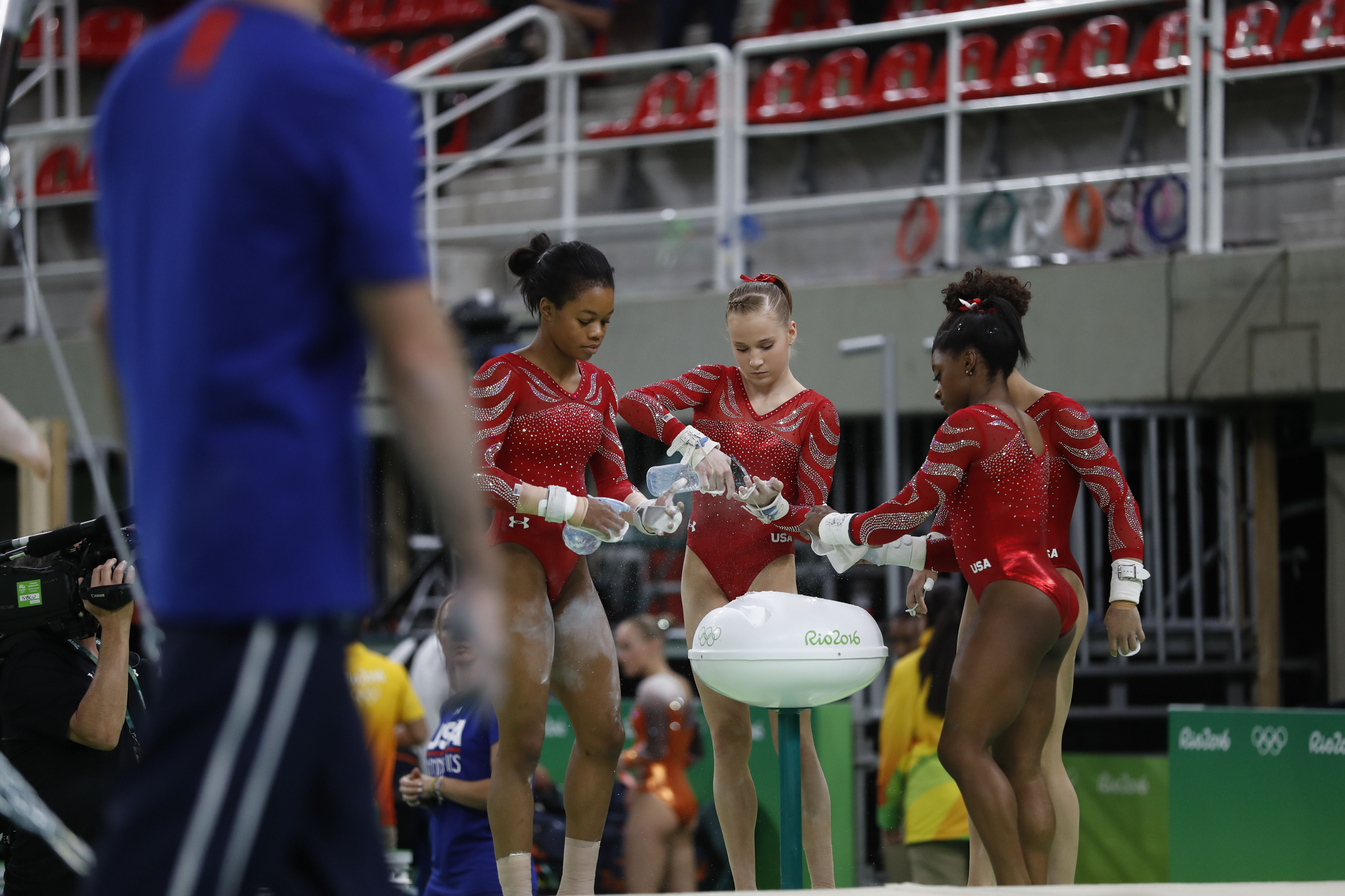 USA Gymnastics team training at Rio de Janeiro